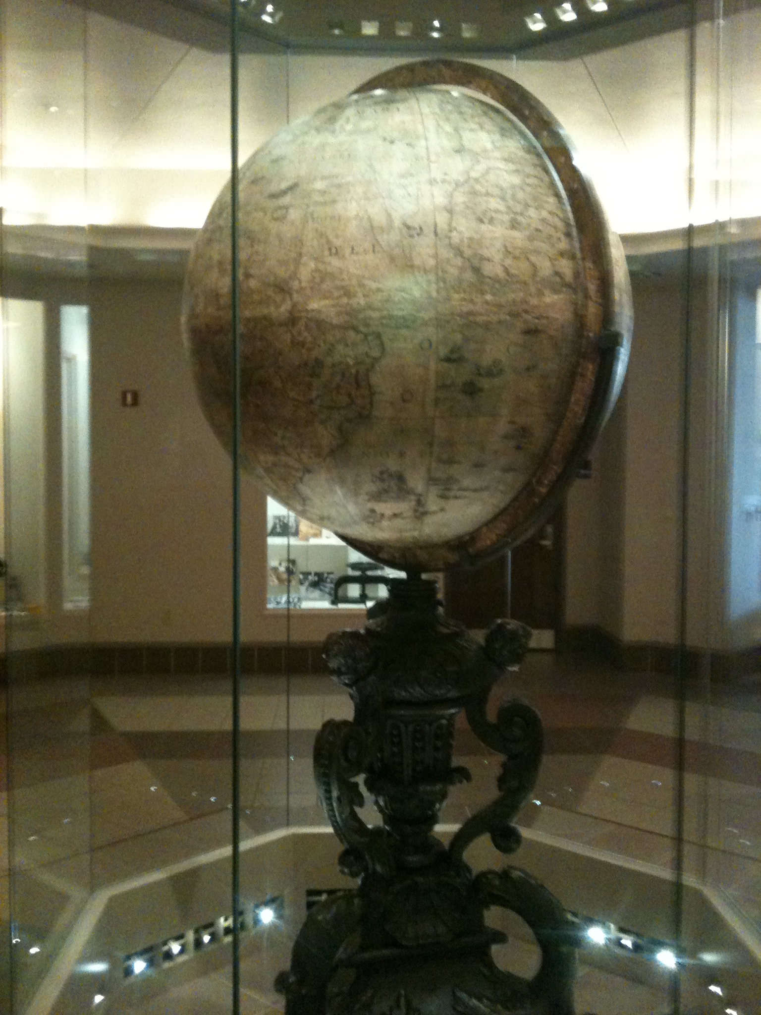 Terrestrial globe made by Vincenzo Coronelli in 1688. Once owned by William Randolph Hearst, the globe was restored in the 1990s by Texas Tech University and is on display at the Southwest Collection/Special Collections Library at Texas Tech University in Lubbock, Texas.